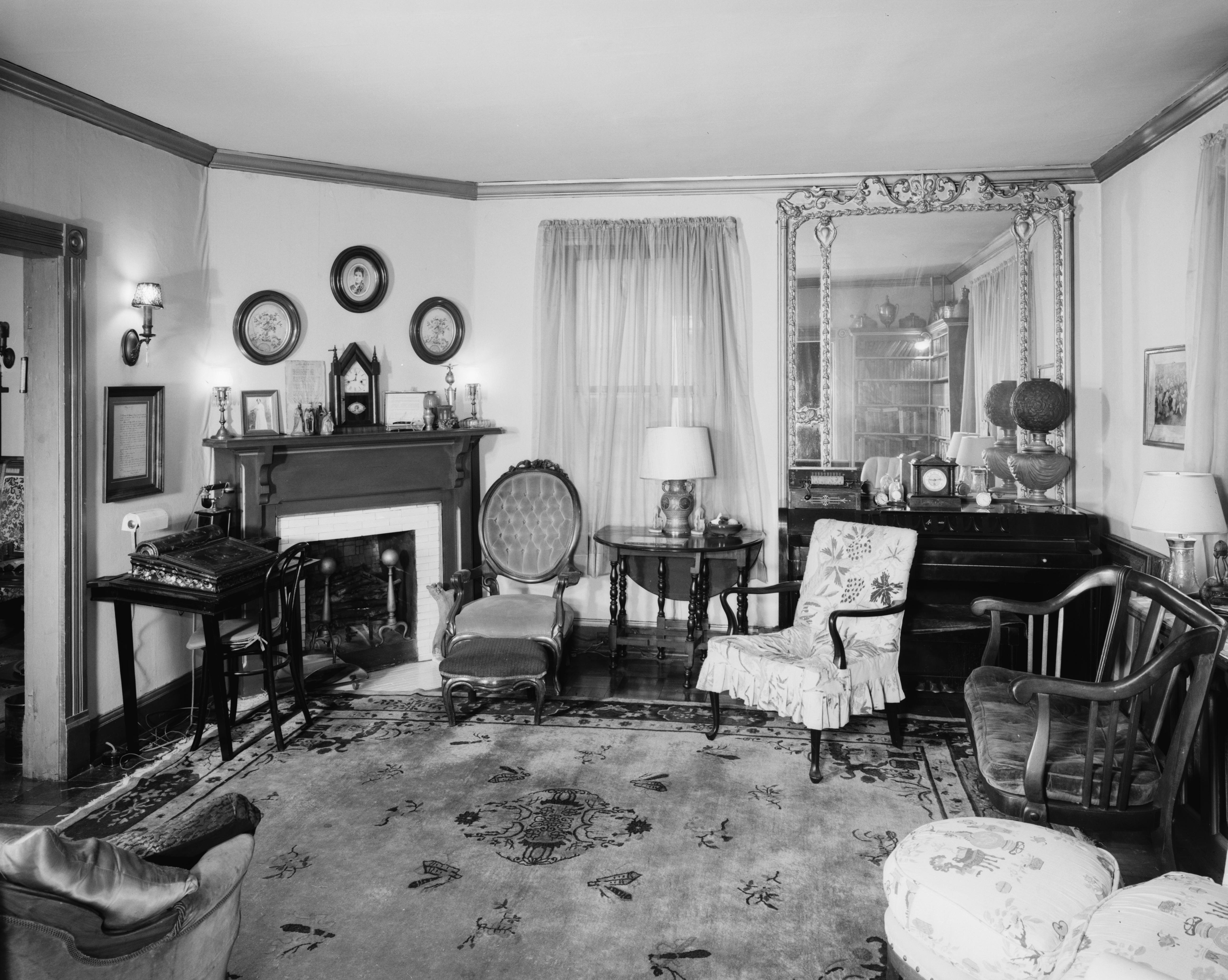 Photographic view of the interior of the Anne Spencer House, study, 1313 Pierce Street, Lynchburg, Virginia. 1977 Image courtesy of Historic American Buildings Survey—HABS, Washington, D.C.